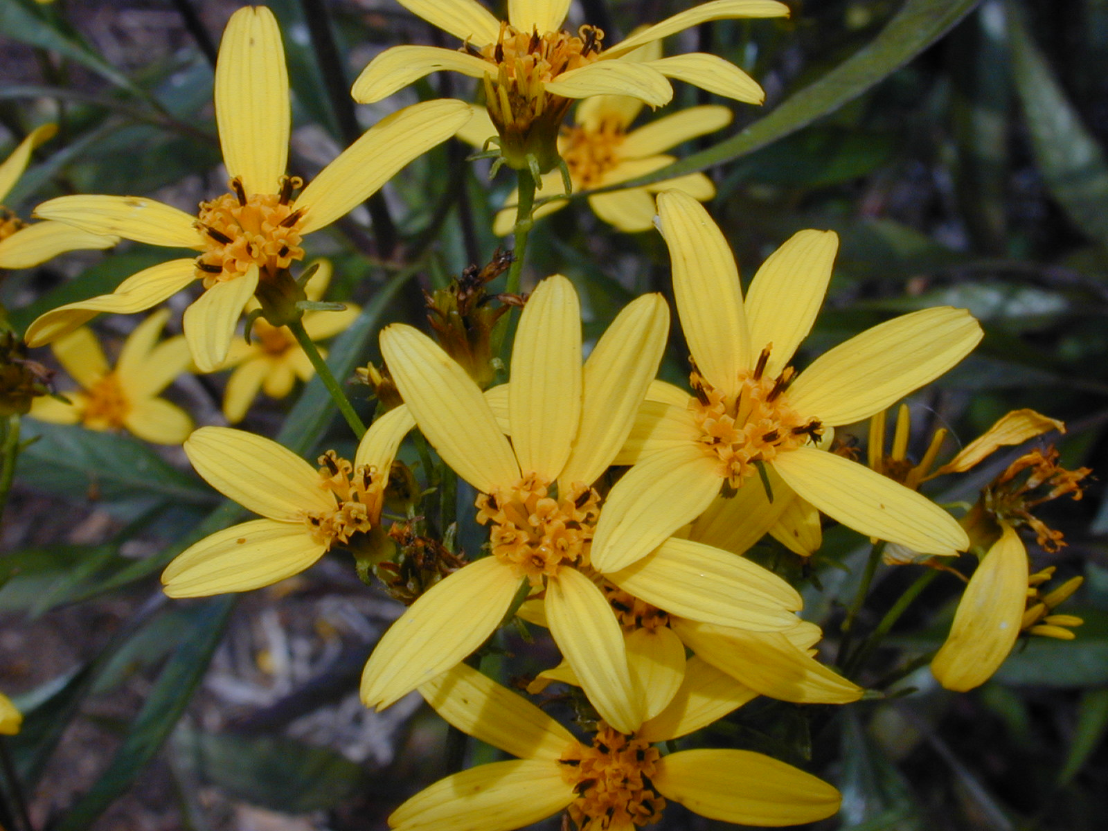 Bidens micrantha subsp. kalealaha (flowers). Location: Maui, Auwahi